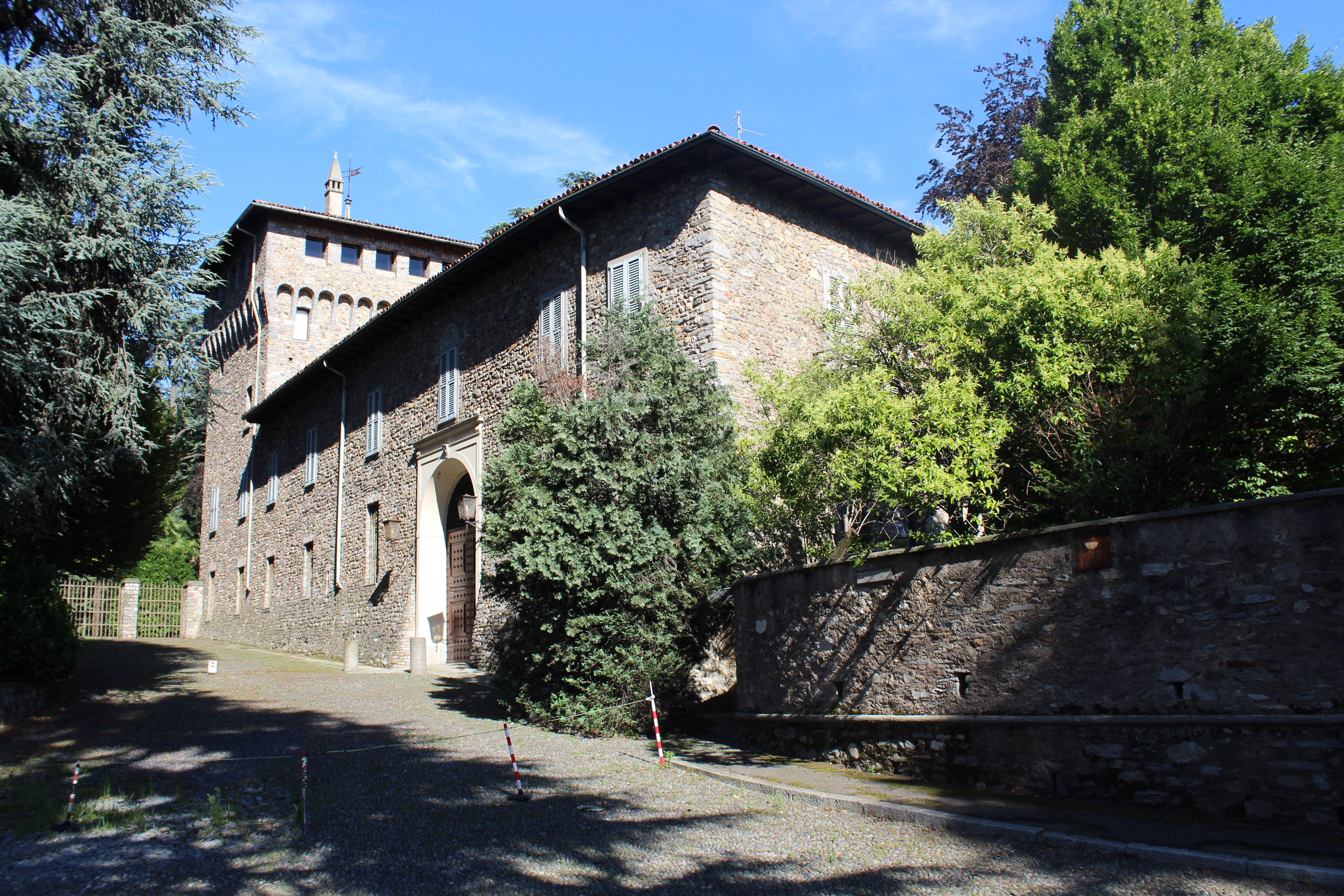 The area of the Crenna castle includes several buildings. This one is located in via Giovanni da Locarno, Salita Visconti.